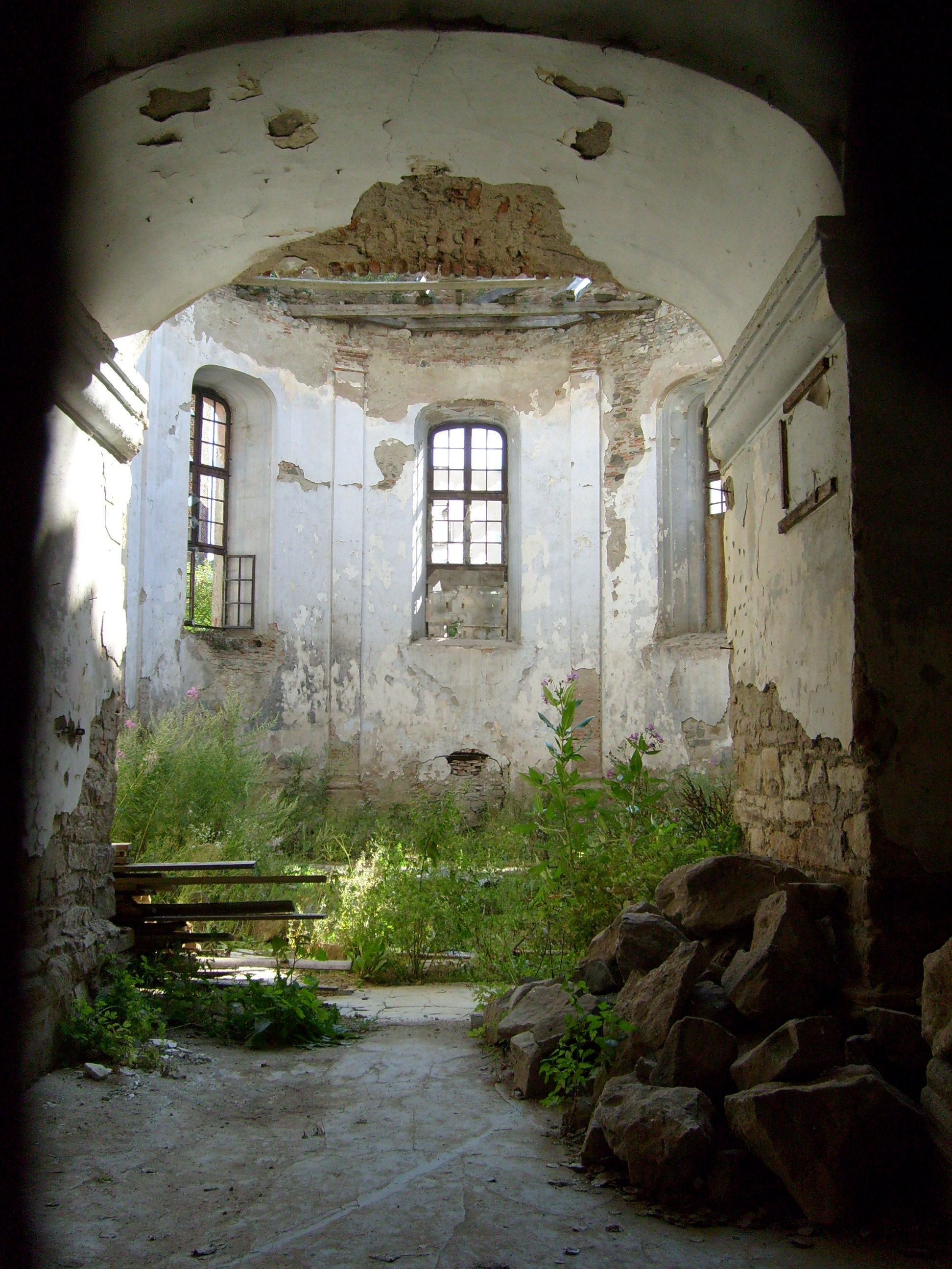 Unitarian Church in Abrud.